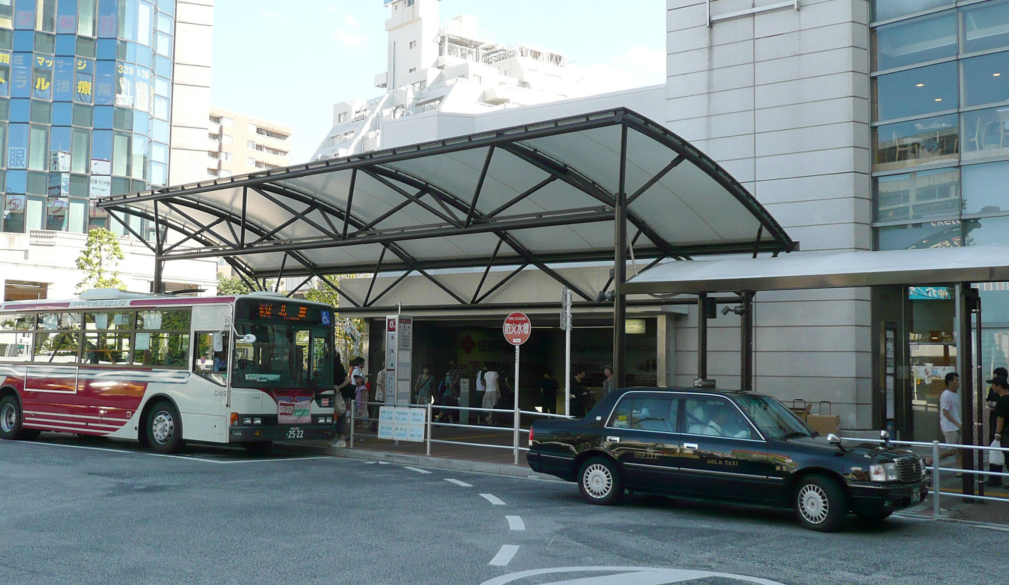 The North entrance of Ogikubo Station on the Chuo Line